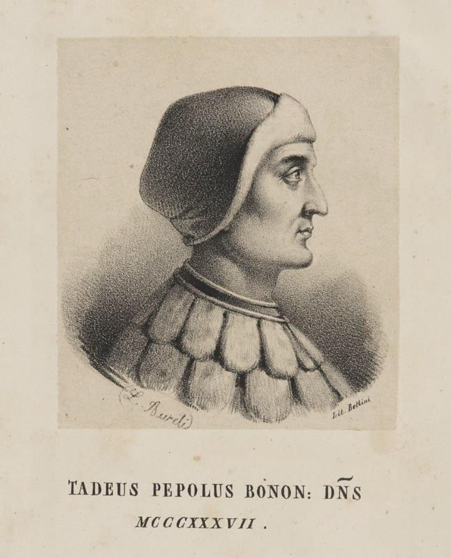 Fantasy portrait of Taddeo Pepoli in a mid-1800 lithography